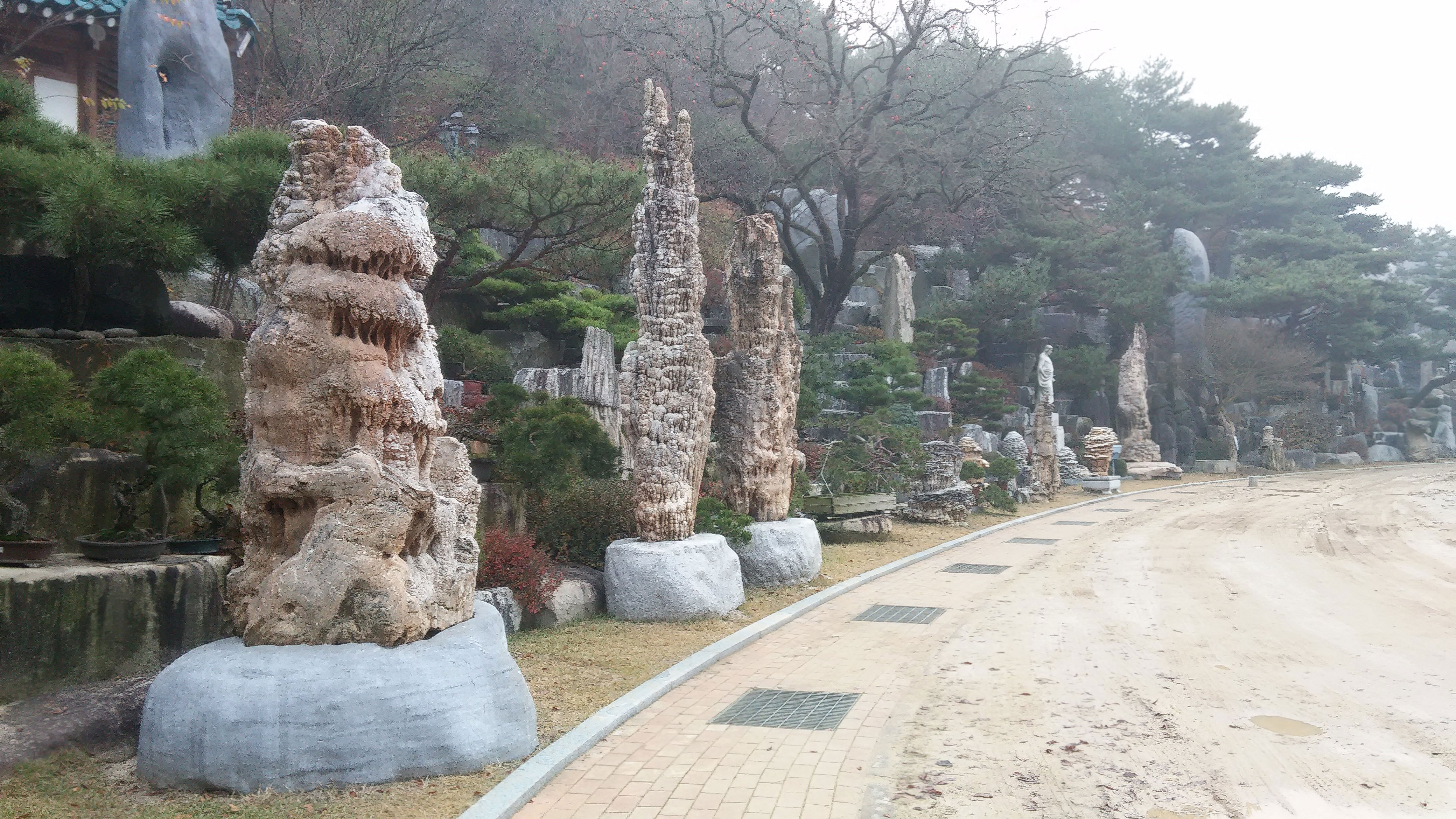 Part of the Wolmyeongdong's outdoor Rock Museum on the sports field. Natural rocks found from inside caves align the side of the rock landscape.